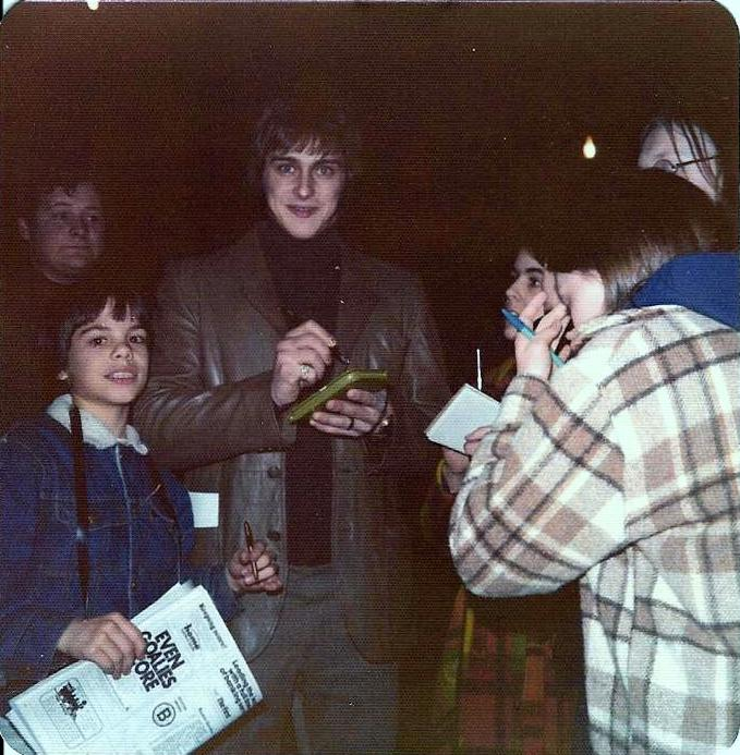 Gilles Gilbert signs autographs for adoring fans at Boston Garden on April 1, 1975.